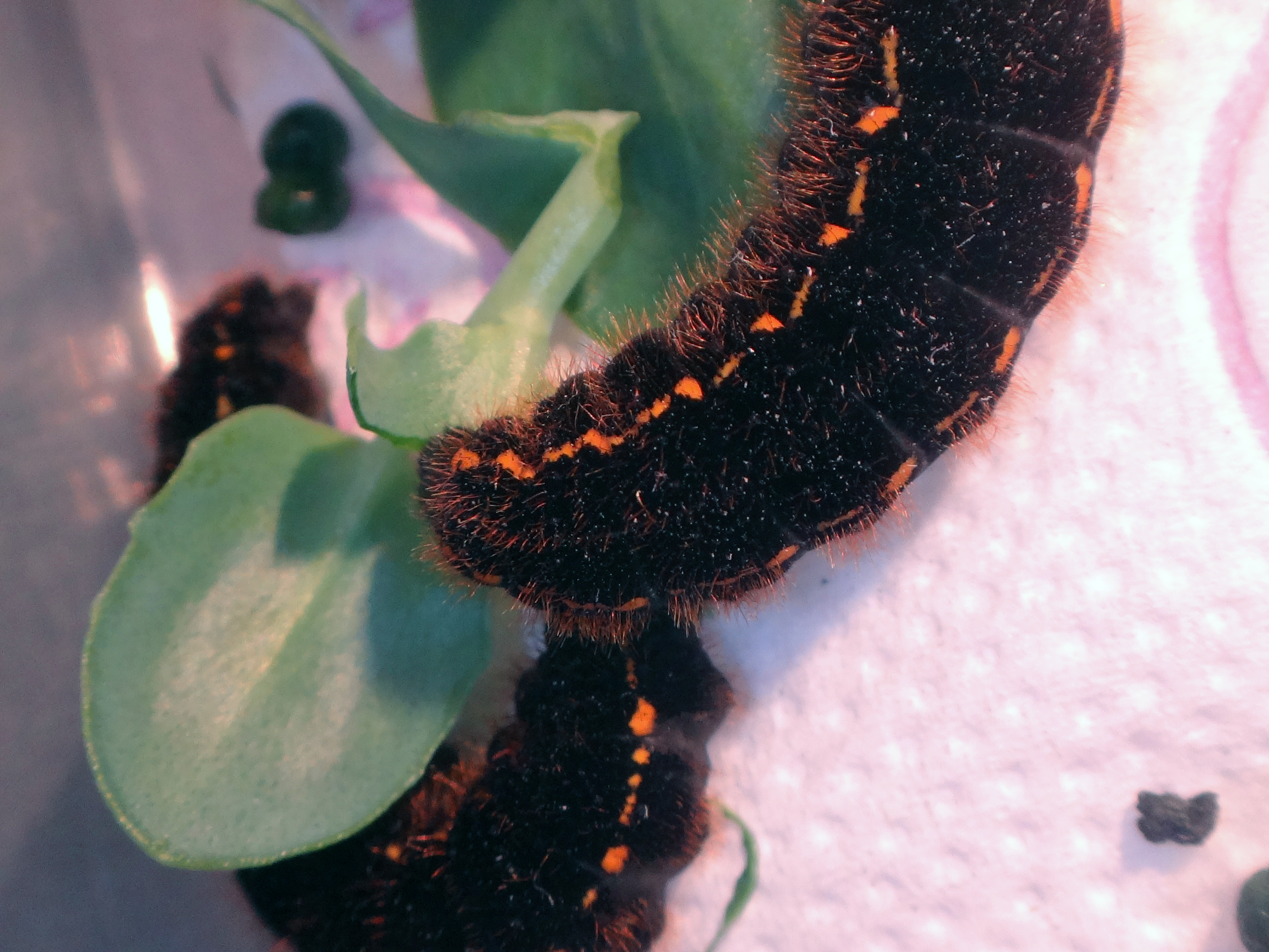 my ferm